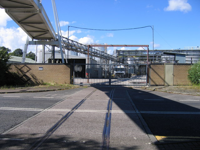 Tar refinery, Preston Docklands The Lanfina tar refinery at the north-west corner of the Preston Dock estate still receives its bitumen by rail, worked through the docklands by the private Ribble Steam Railway (RSR). At one time a railway siding used to extend right into the works and the remains of this are seen here crossing Chain Caul Way. Today, however, a new siding has been provided closer to the RSR and the bitumen is transferred from the rail wagons into the works by pipeline along the overhead gantry.